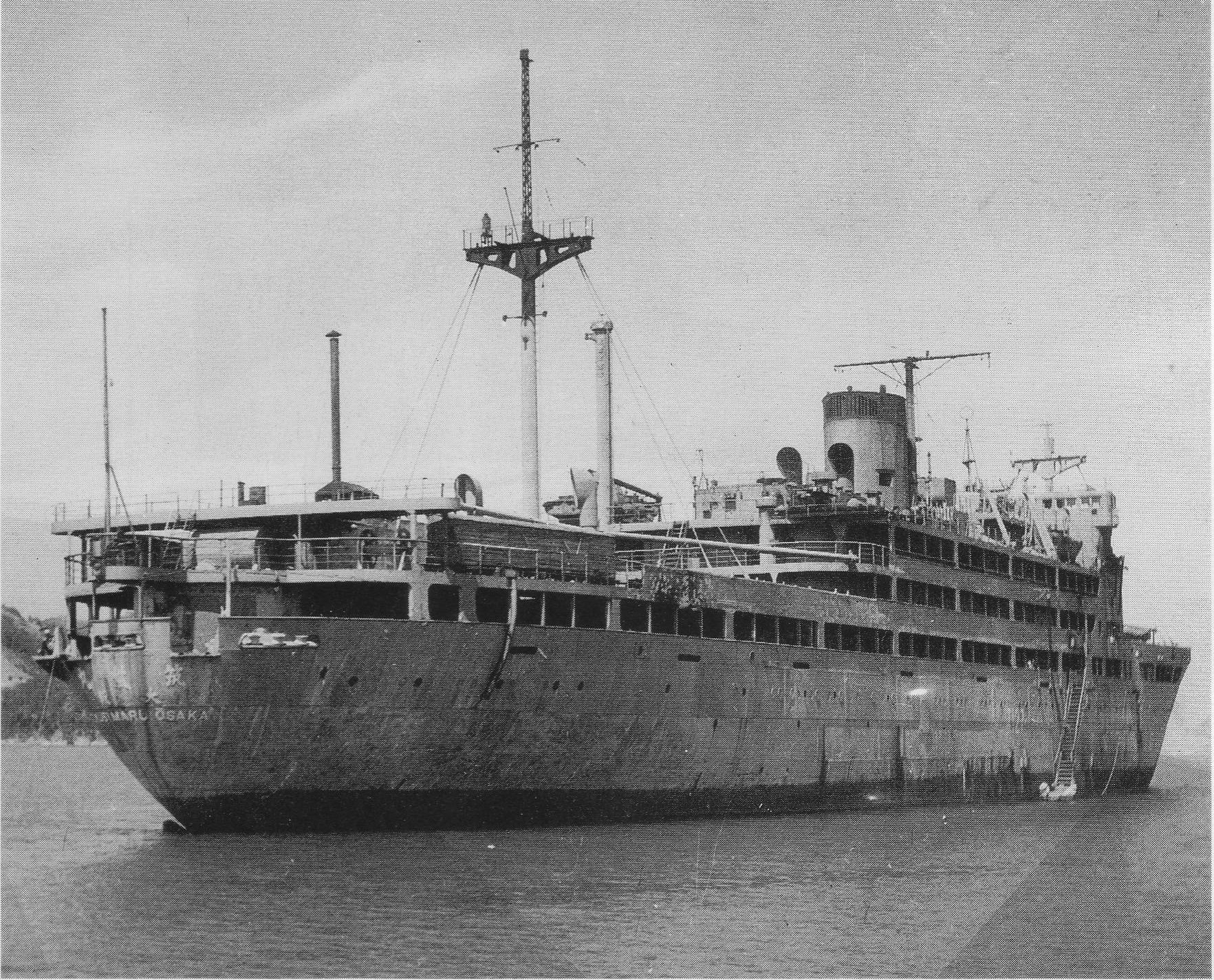 Auxiliary Submarine tender "Tsukushi Maru". Completed in 1943, Year disappeared unknown. Shooting immediately after the conclusion of WWII.